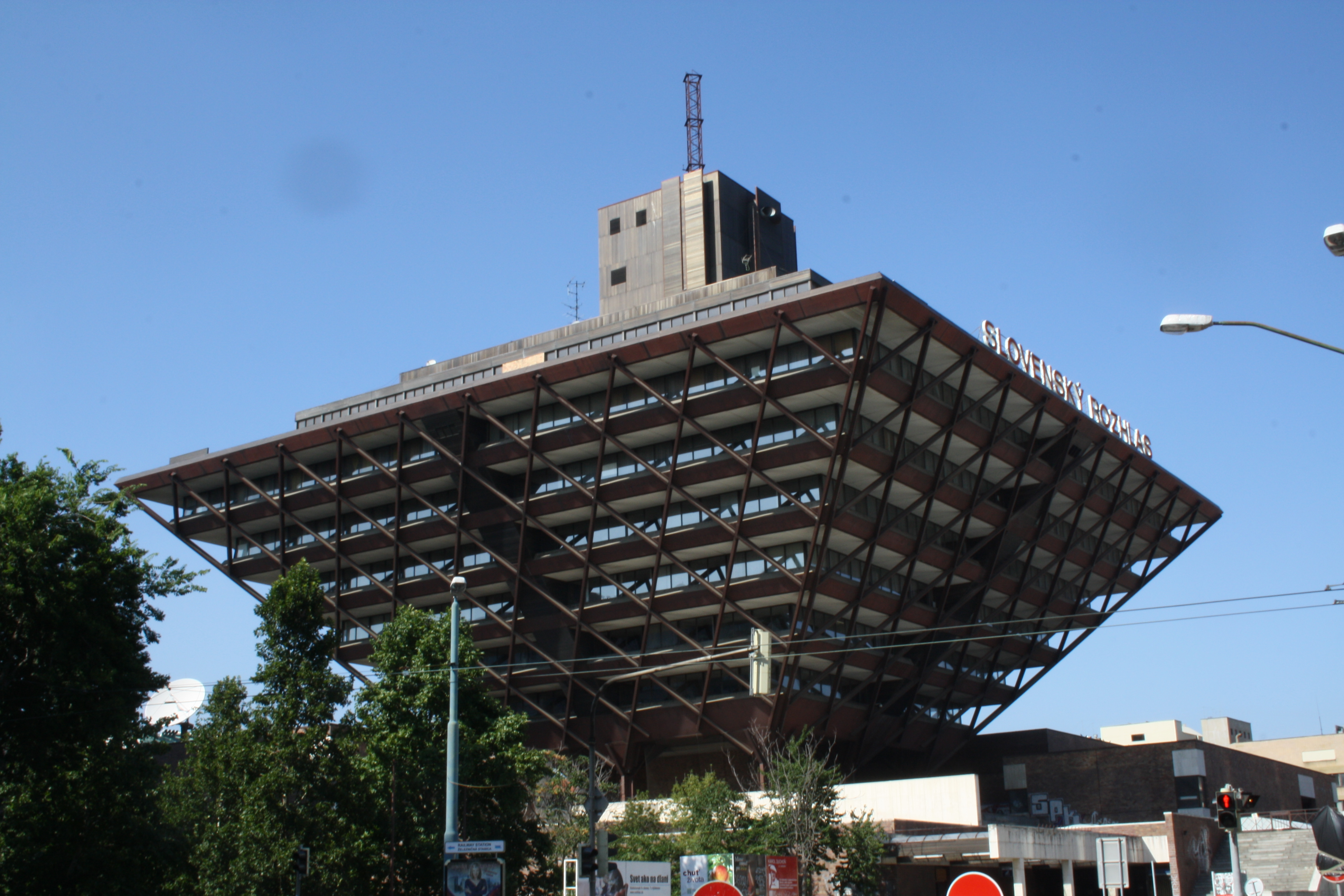 Building of Slovak Radio in Bratislava.